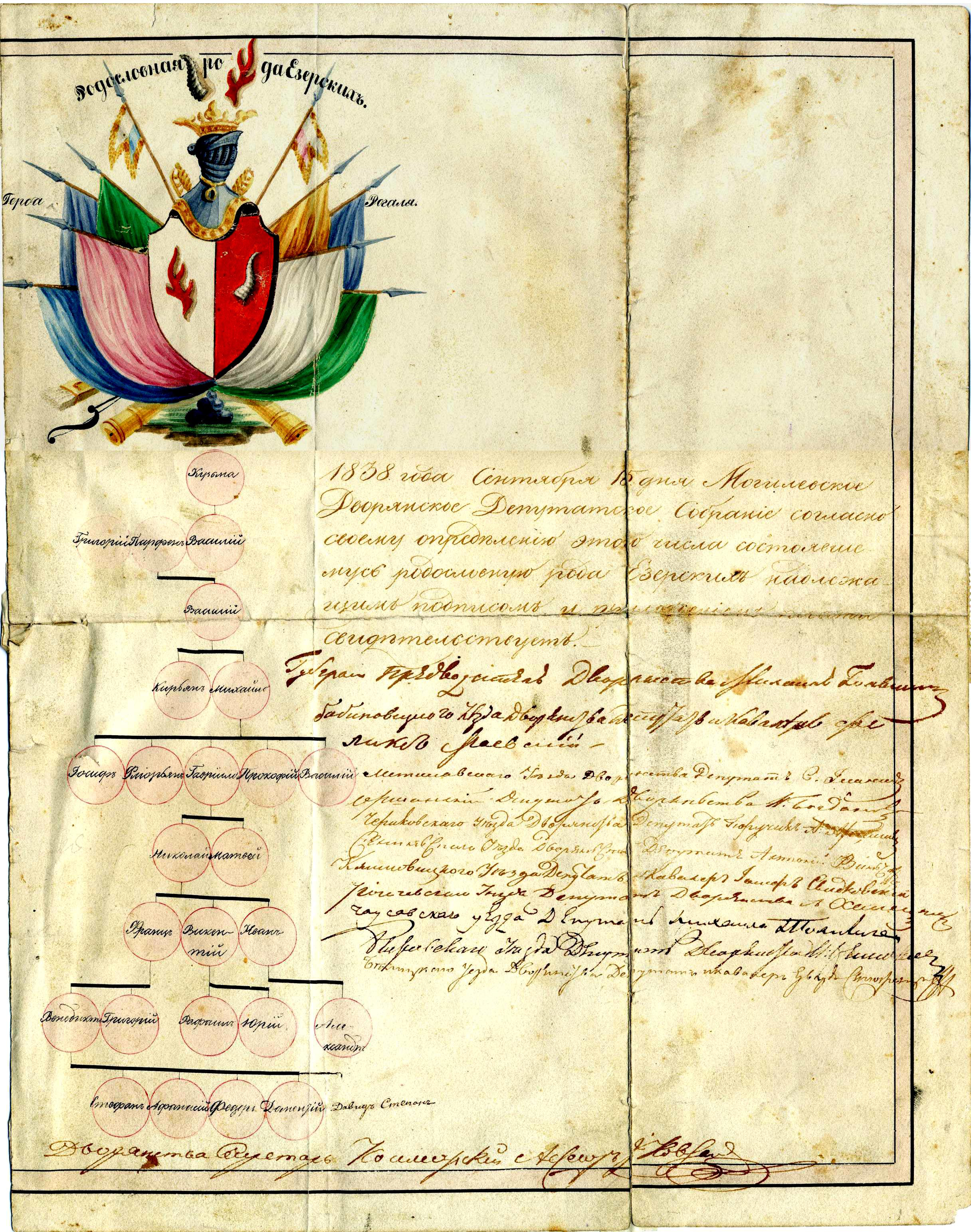 Family tree and coat of arms of Mogilyov branch of the House of Jezierski family, 1838